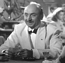 Picture of actor Torben Meyer at a card table in the film Casablanca